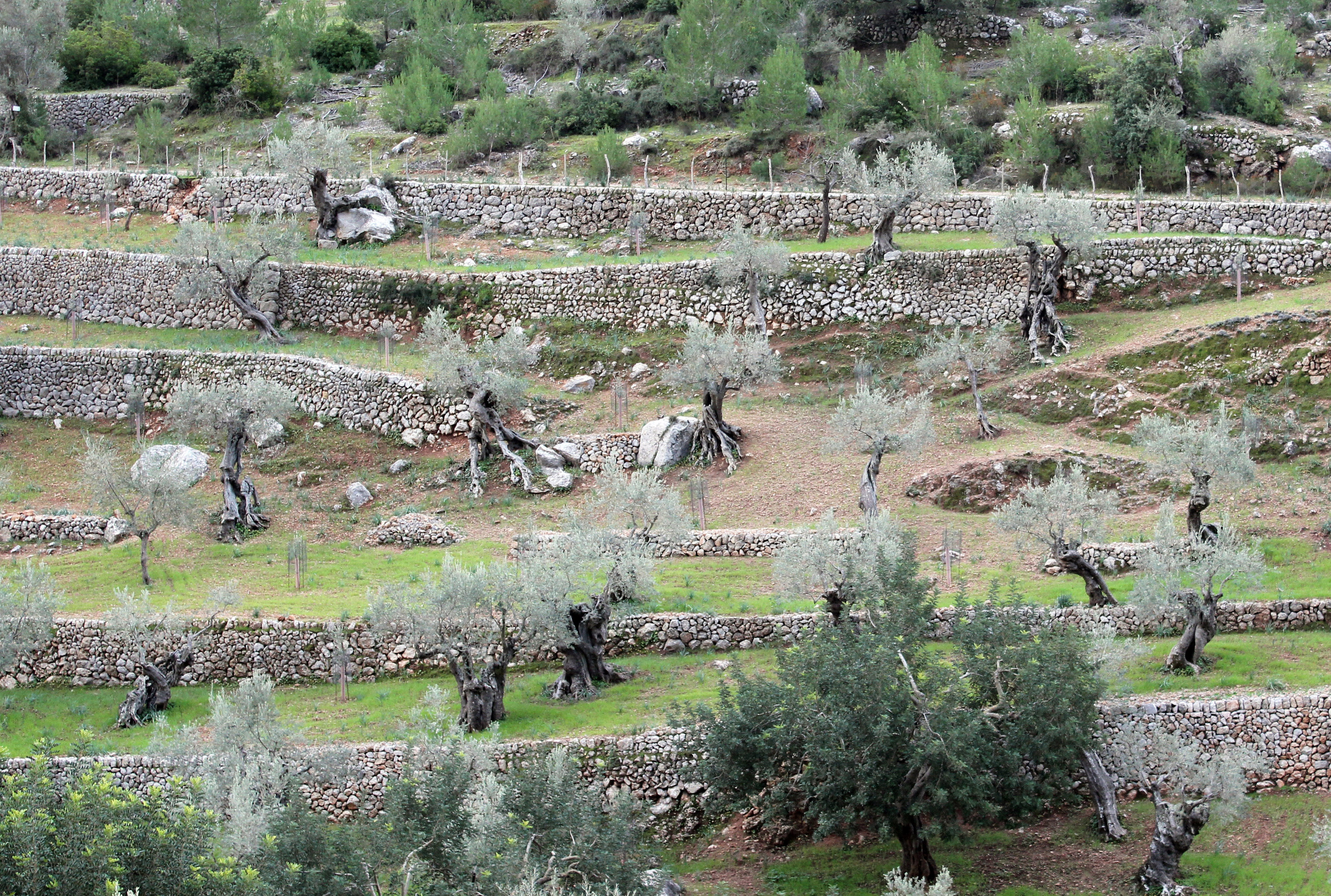 Olives growing on terraces. Picture taken near Valldemossa, Mallorca, Spain